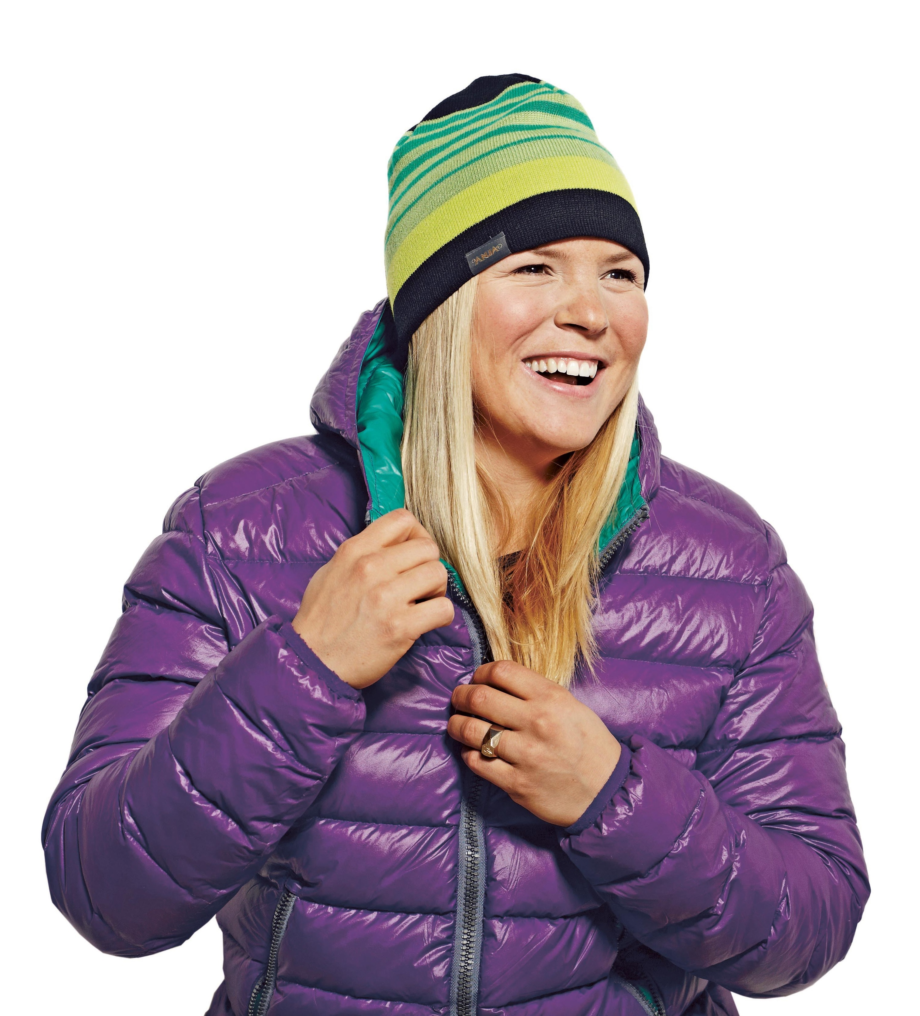 Swedish alpine skier Anja Pärson.